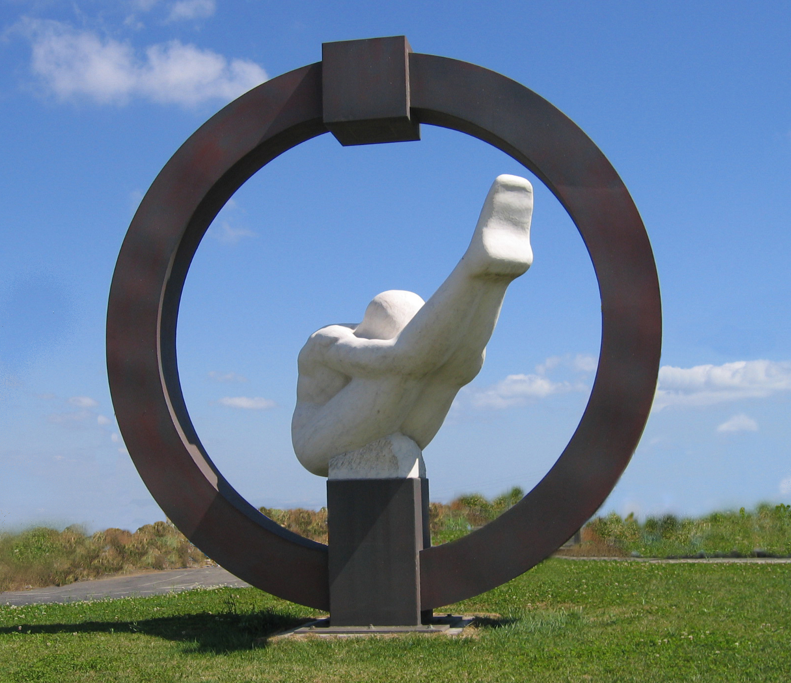 Eternidade - Sintra